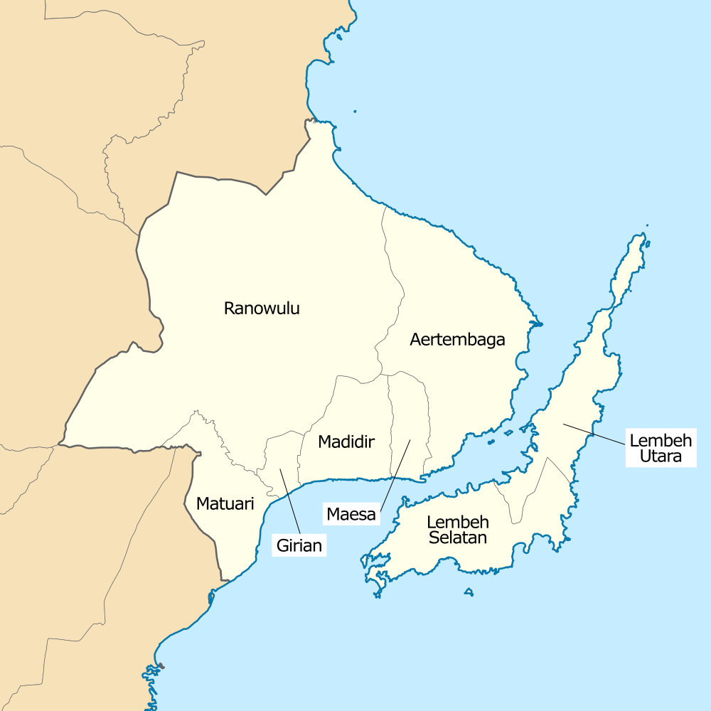 Map of sub-districts in Bitung, North Sulawesi, Indonesia. Map data from tanahair.indonesia.go.id and kpu-sulutprov.go.id.